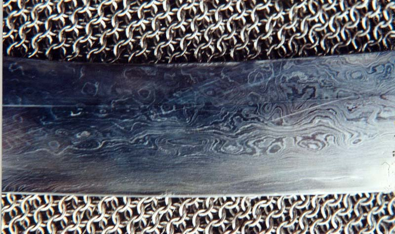 The background is 1/16 th inch chrome rings. The steel is blue like the swords from the time of Masamune.